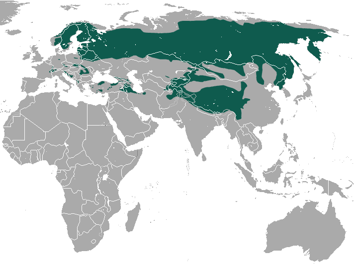 Eurasian Lynx (Lynx lynx) range